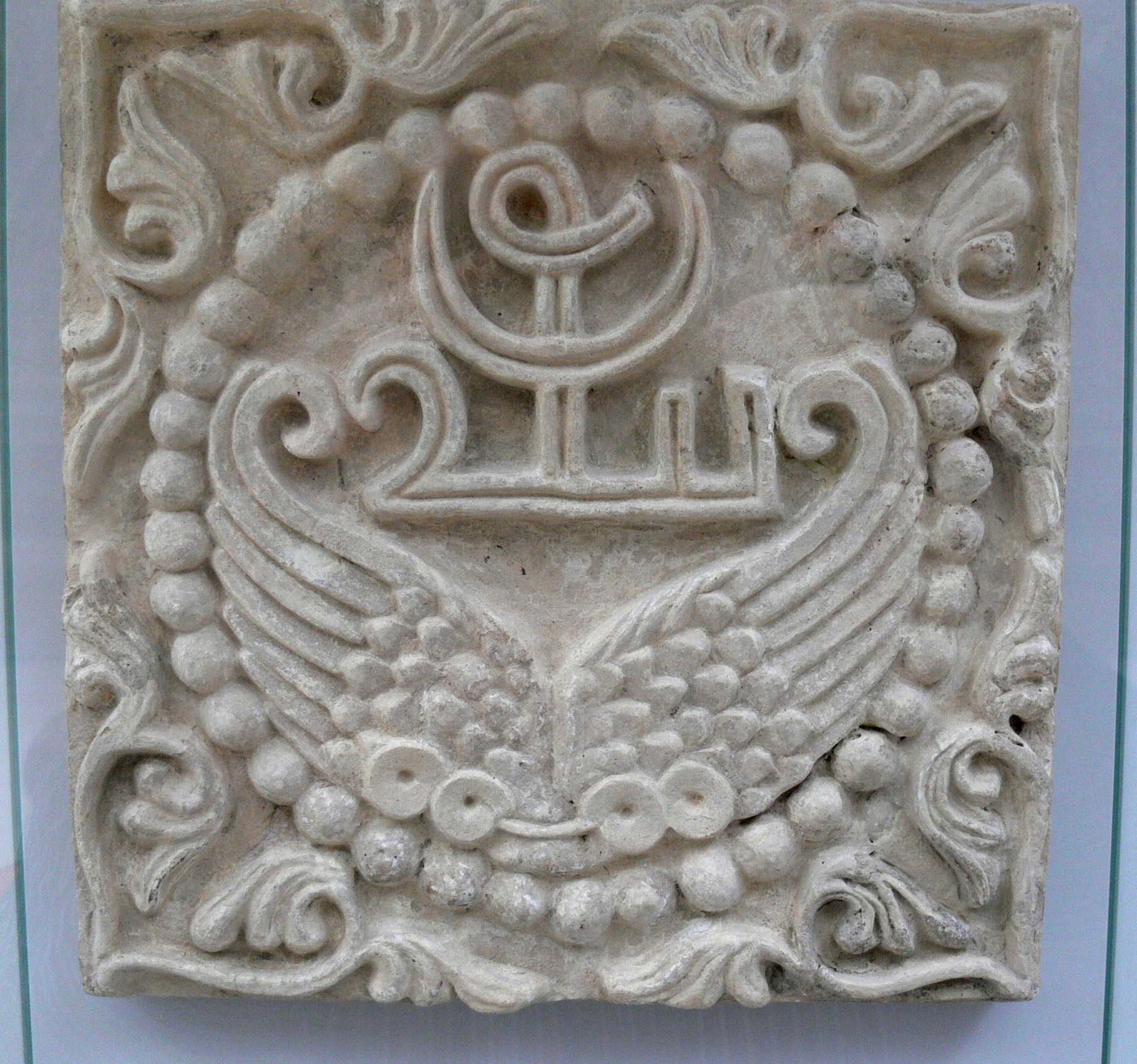 Museum of Islamic Art ( Berlin ). Sassanid relief with Pahlavi-monogram ( 6th/7th century AD ), plaster, from Umm az-Za'atir ( Irak ), Inv.Nr KtO 1084. The letters from right to left are alef, pe, and waw (which, beside w, may represent r). Here, alef is abbreviation of afzūn, and "fr" (pe + waw) means farr. The two words sometimes appear in Sassanian coins.